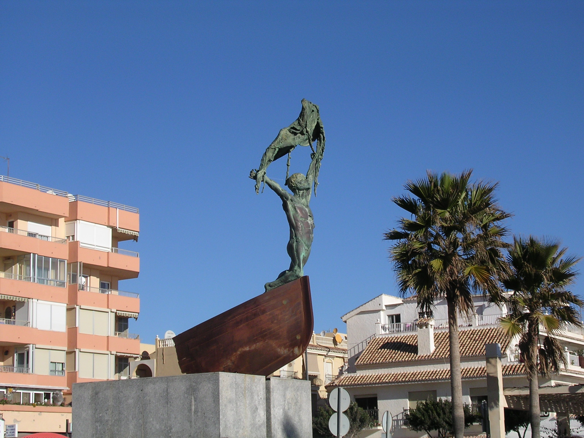 Sculpture in La Carihuela, Torremolinos, Spain.